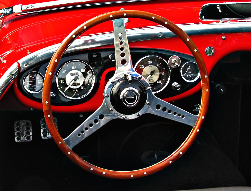 Streering wheel, 1955 Austin-Healy 1004 At the 2010 Dayton Concours d'Elegance in Carillon Park. The 100 series was so named because it could crack the 100 mph. barrier